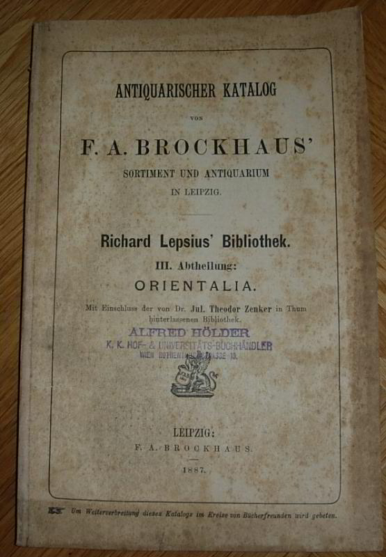 Antiquariatskatalog: Bibliothek Richard Lepsius, Dritte Abteilung: Orientalia (The library of Richard Lepsius, part III, sold after his death)